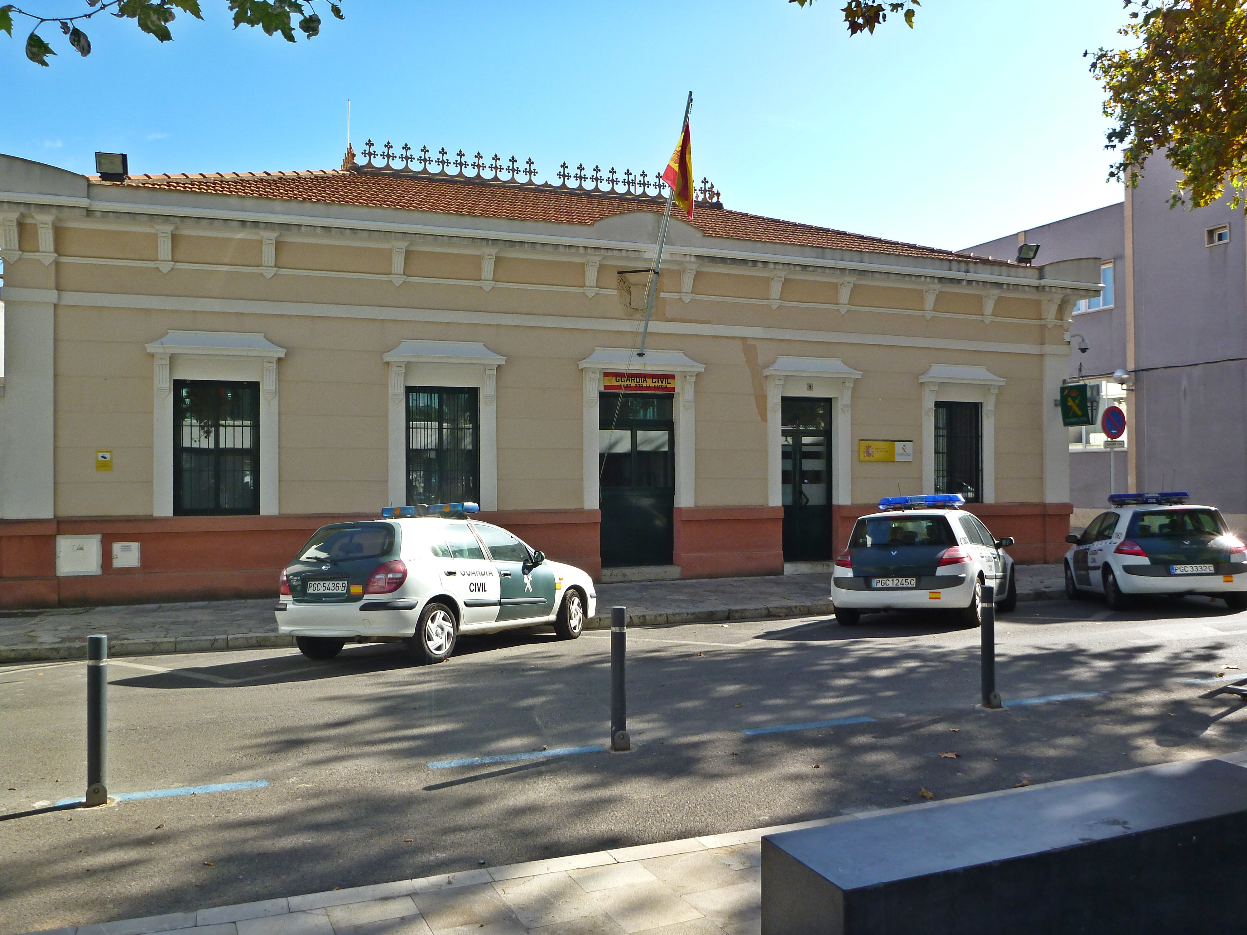 Barracs of Guardia Civil in the harbour of Palma de Mallorca